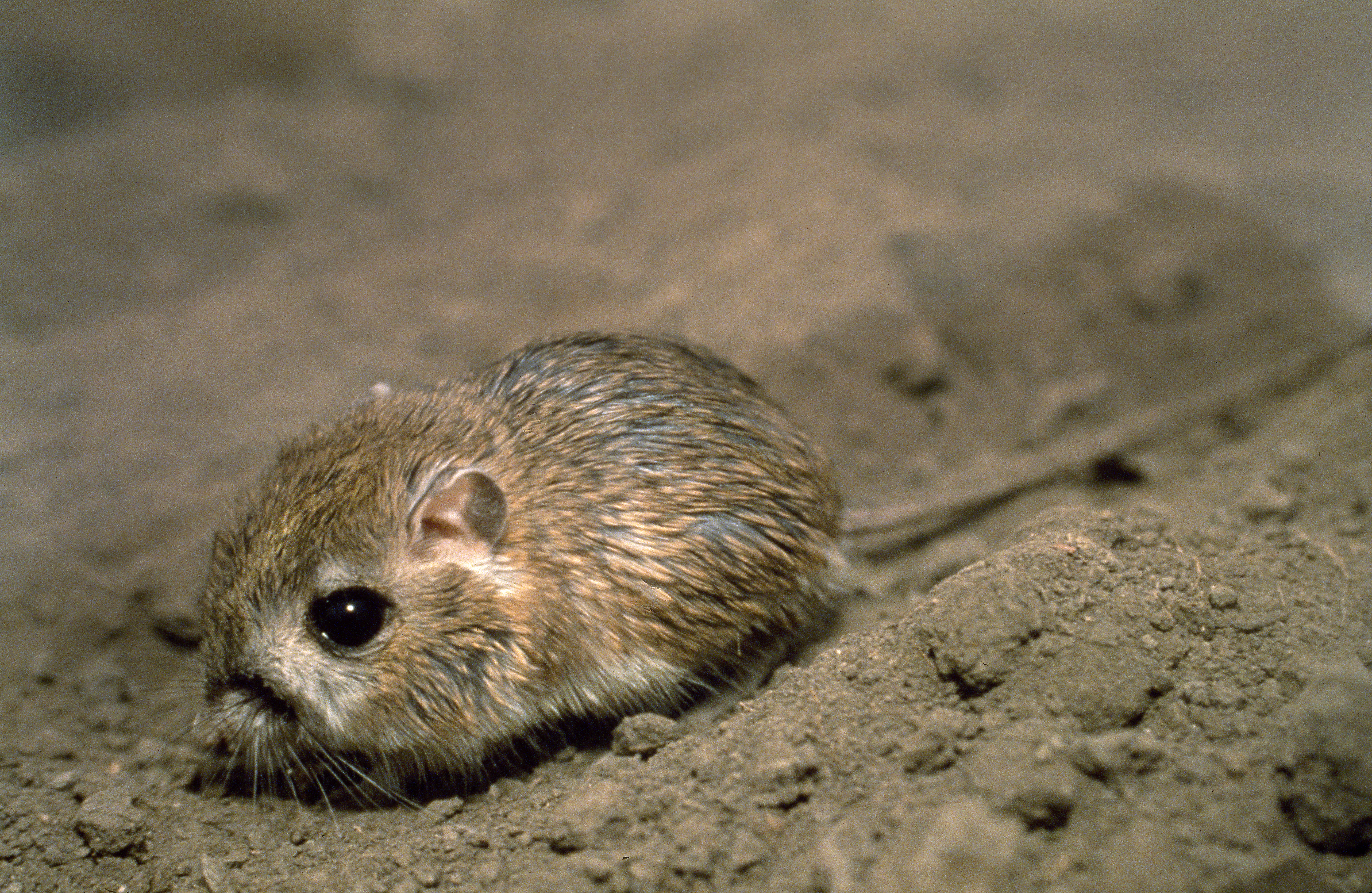 A Tipton kangaroo rat (Dipodomys nitratoides nitratoides) at the California Living Museum in Bakersfield, Calif. This mammal is one of three subspecies of the San Joaquin kangaroo rat, morphologically distinguished by being larger than the Fresno kangaroo rat (Dipodomys nitratoides exilis) and smaller than the short-nosed kangaroo rat (Dipodomys nitratoides brevinasus), a species of concern. Tipton males average around 9 1/4 inches. San Joaquin kangaroo rats can be distinguished from other kangaroo rats within their range by the presence of four toes on the hind foot; other species have five toes. Kangaroo rats are adept at jumping, as they can often cover a distance of 6 feet in one leap. Tipton kangaroo rats eat mostly seeds but will also eat fresh green vegetation and various small insects. And they live in burrow systems approximately eight to ten inches below the ground. The burrows are usually found in slightly elevated mounds. Photo taken 1991.